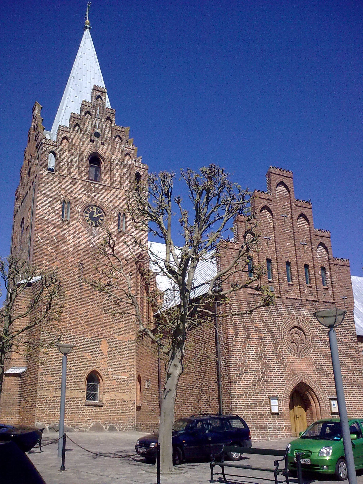 Picture of Grenaa Church taken with a camera phone in May 2009